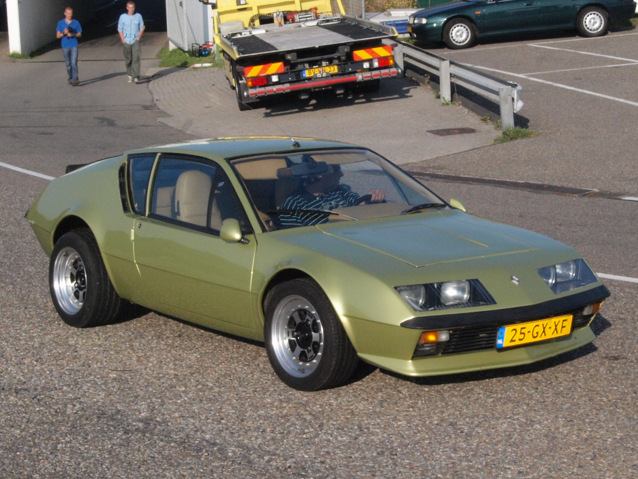 Photographed at the Nationaal Oldtimer Festival Zandvoort 2009, The Netherlands. OLYMPUS DIGITAL CAMERA